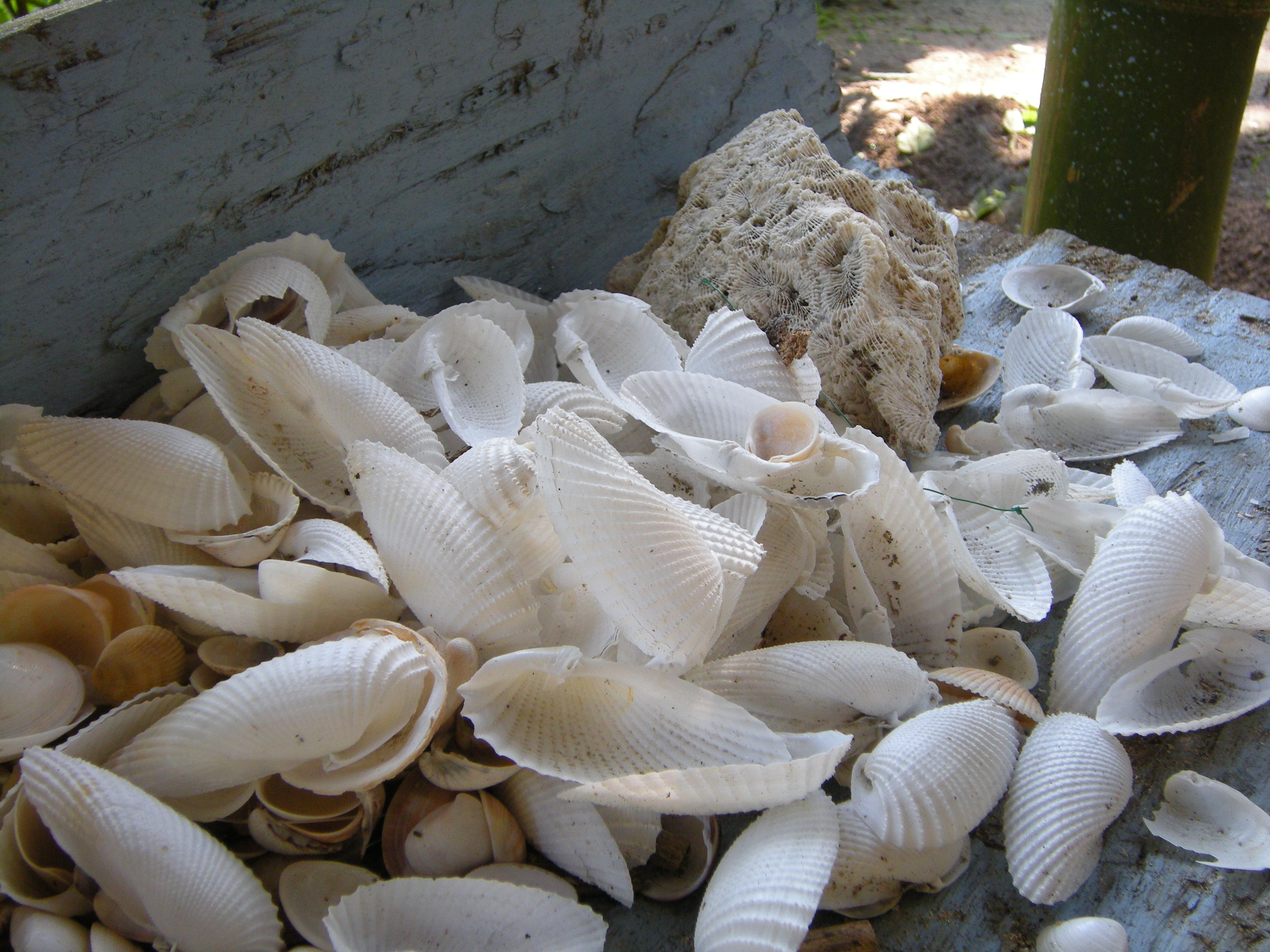 Seashells.